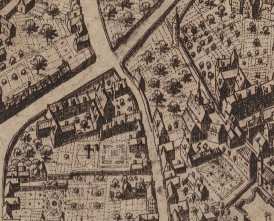 Monastery Sint-Elisabeth op de berg Sion and Abbey of Our Lady of the Assumption (Brussels) on a map of Martin de Tailly